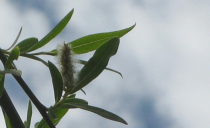 Salix chilensis Molina or Salix humboldtiana Willd., central chile near a creek in Santiago